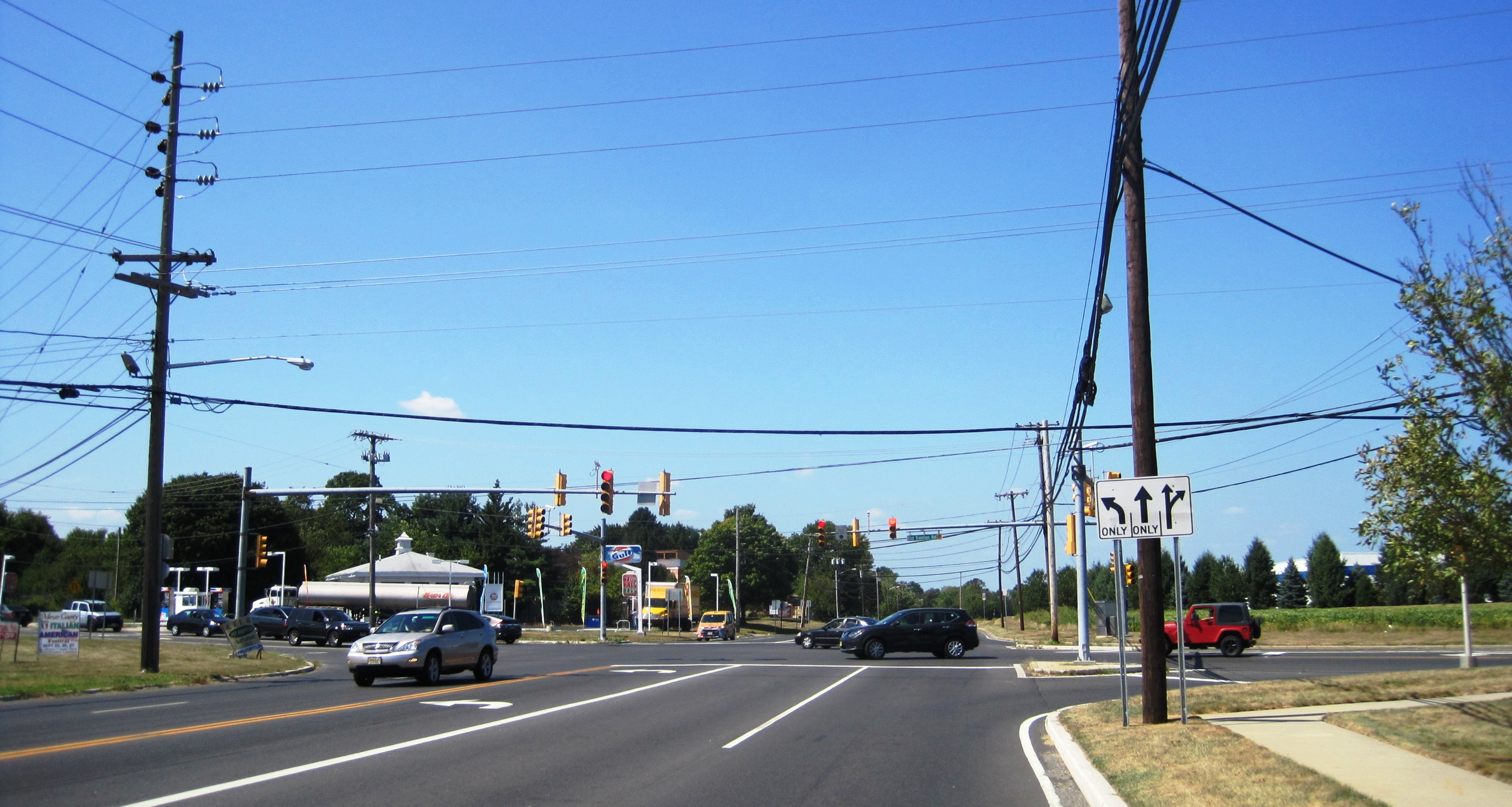 Photo of Locust Corner, New Jersey, an unincorporated community within East Windsor Township. Photo taken on Princeton-Hightstown Road (County Route 571) at Old Trenton Road (CR 535).